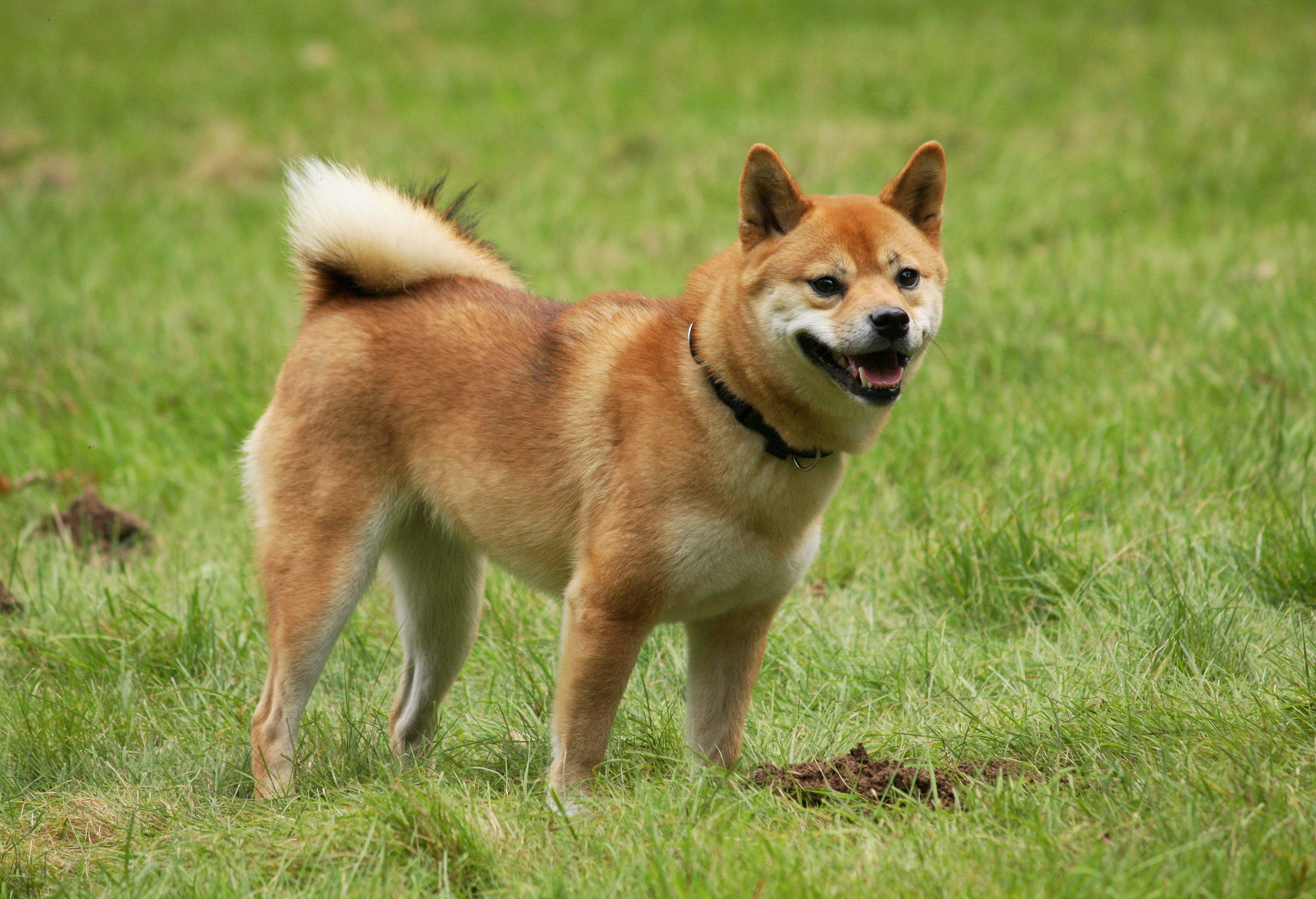 September 2012 Creative Commons Licence BY 2.0 Quellenangabe / Credit: Photo by Maja Dumat